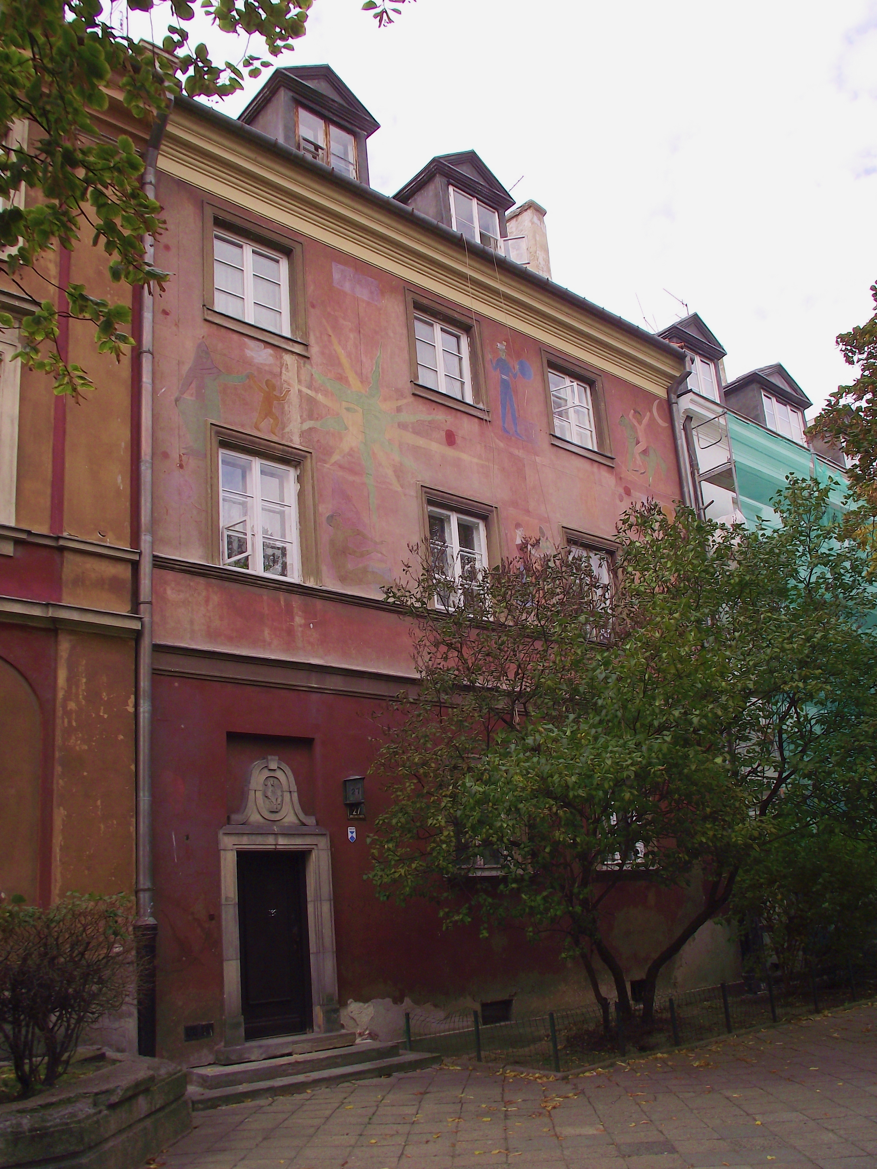 Tenement from the 2nd half of the 19th century at 27 Rynek Nowego Miasta Street in Warsaw, Śródmieście district.